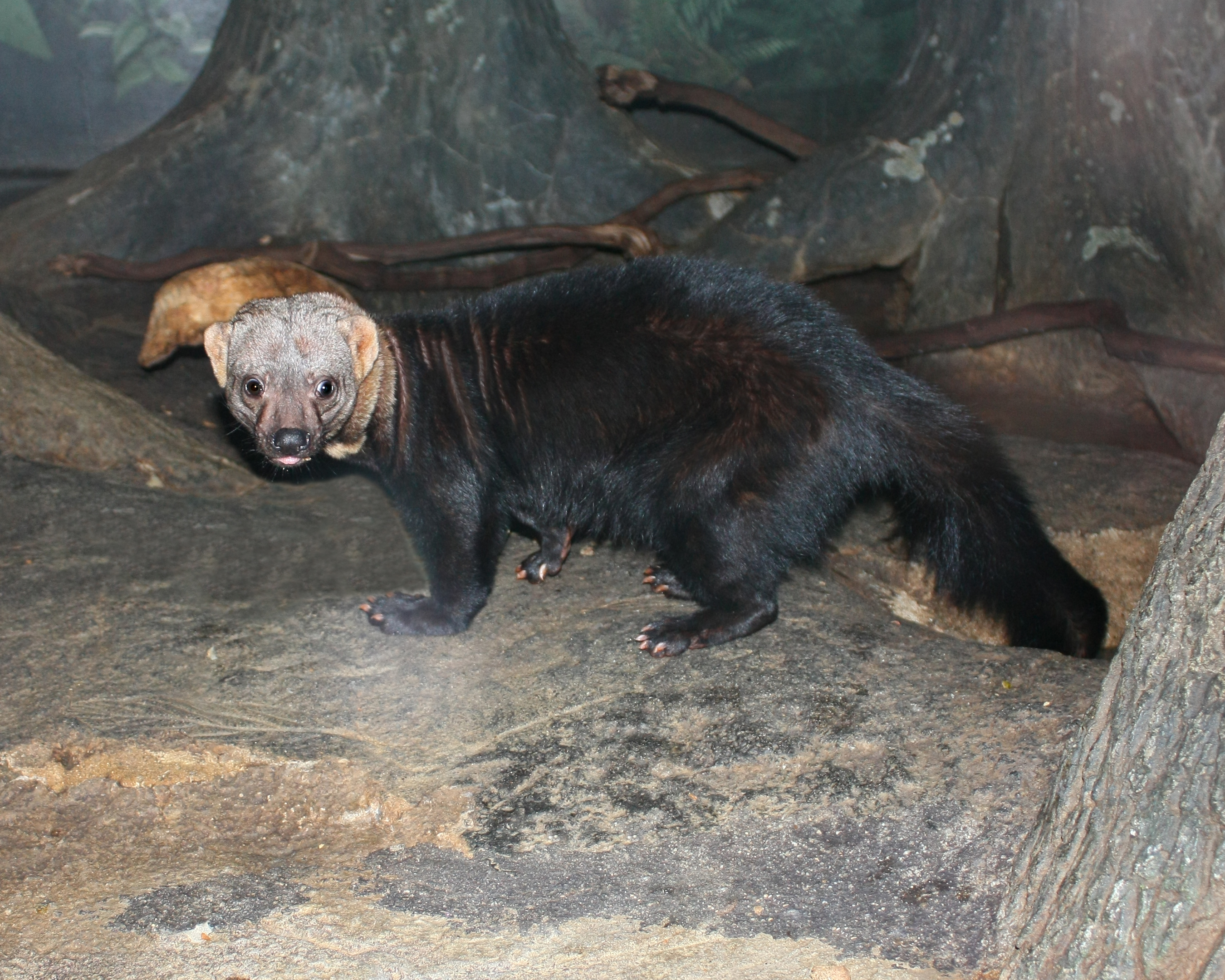 Tayra - taken at the Cincinnati Zoo and Botanical Garden by Greg Hume